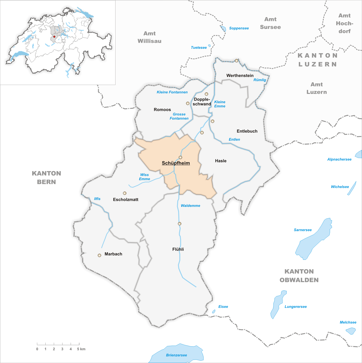 Municipality Schüpfheim